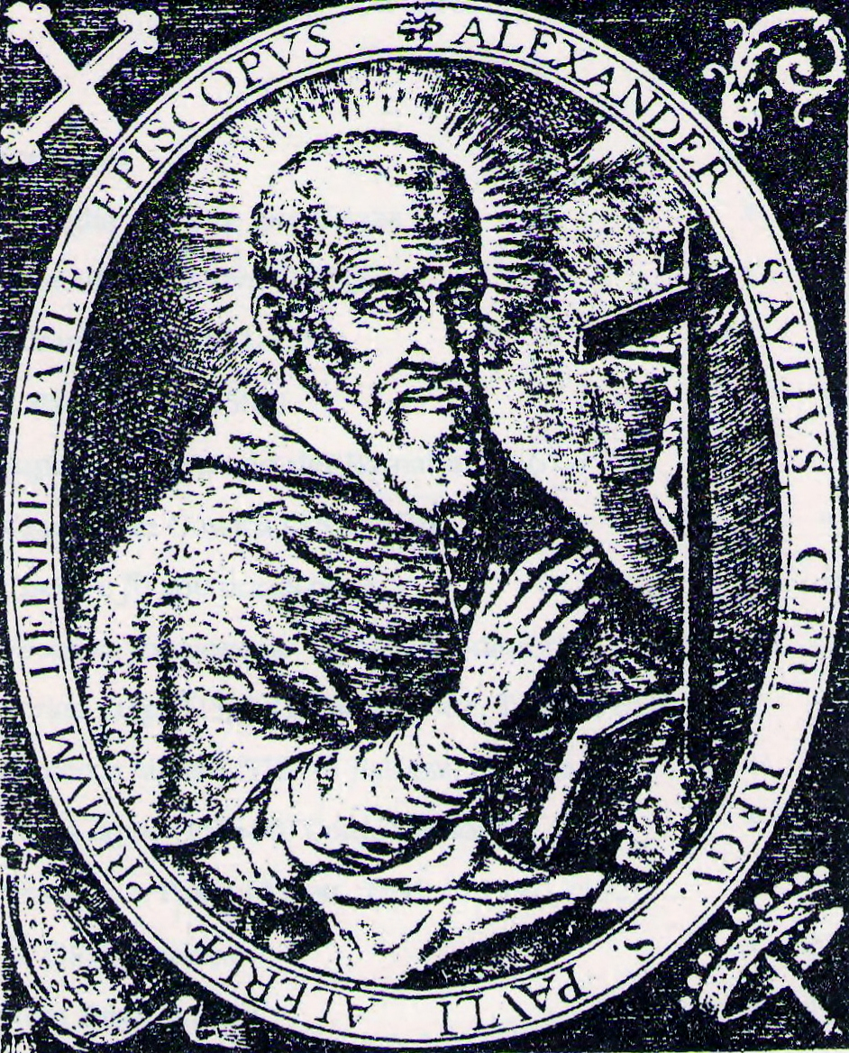 St Alexander Sauli Clerics Regular of St Paul defender of faith